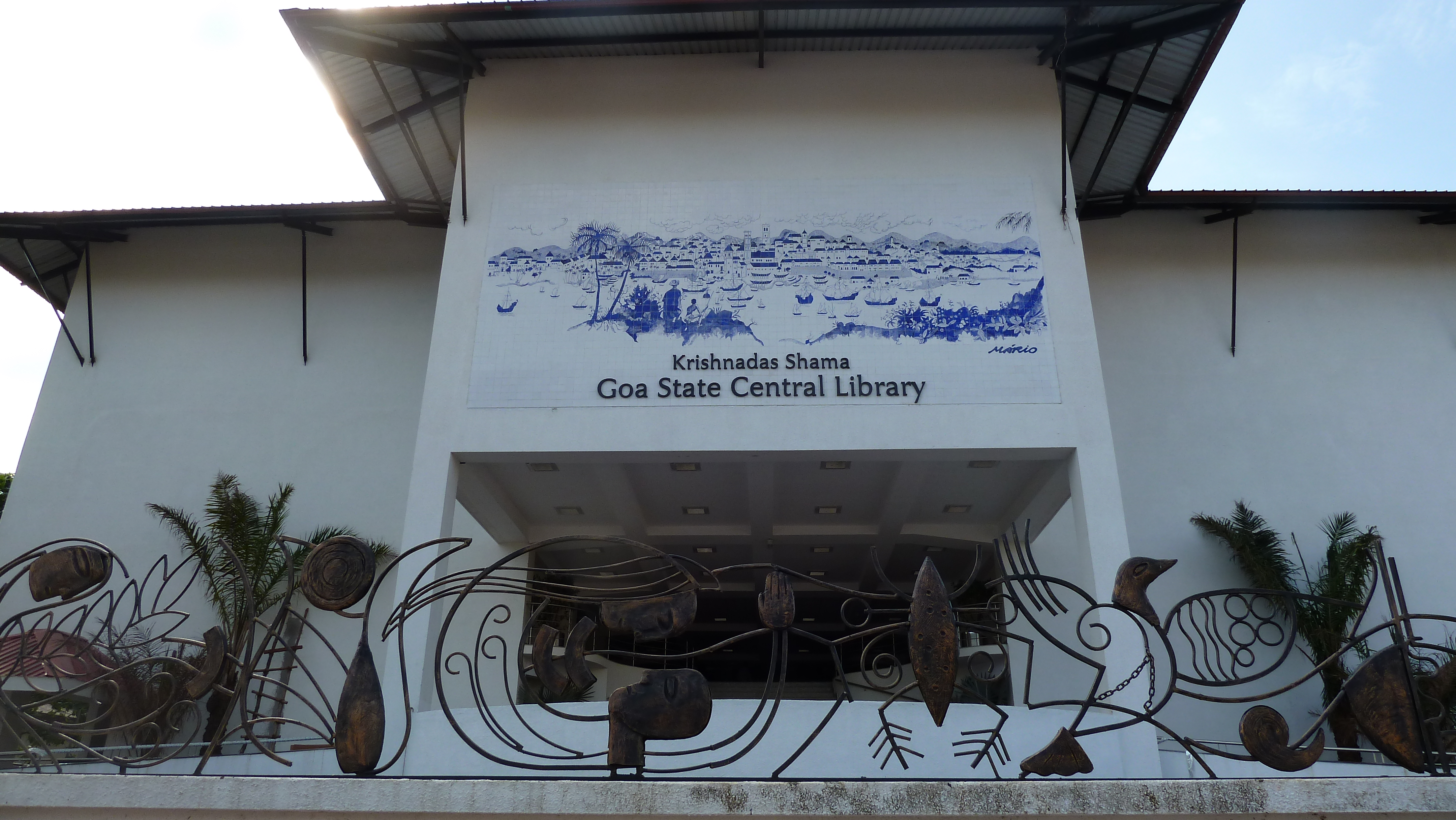 State Central Library Goa (now, the Krishnadas Shama Central Library) at Panjim, Goa, India. Front of the building designed by architect Gerard da Cunha.